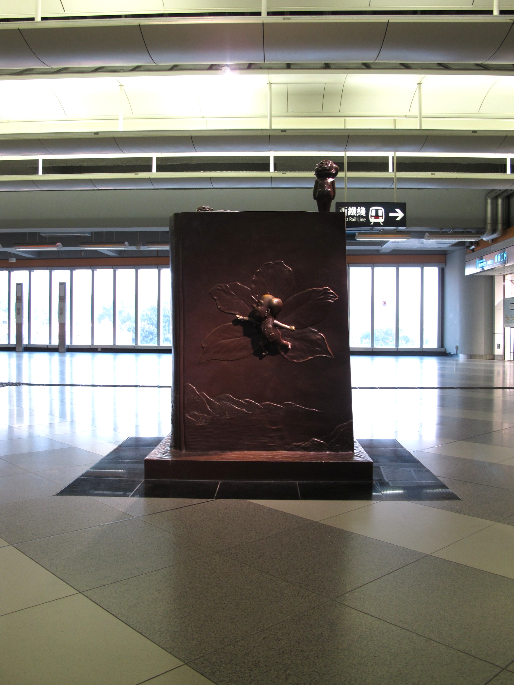 Tin Shui Wai Station Sculpture